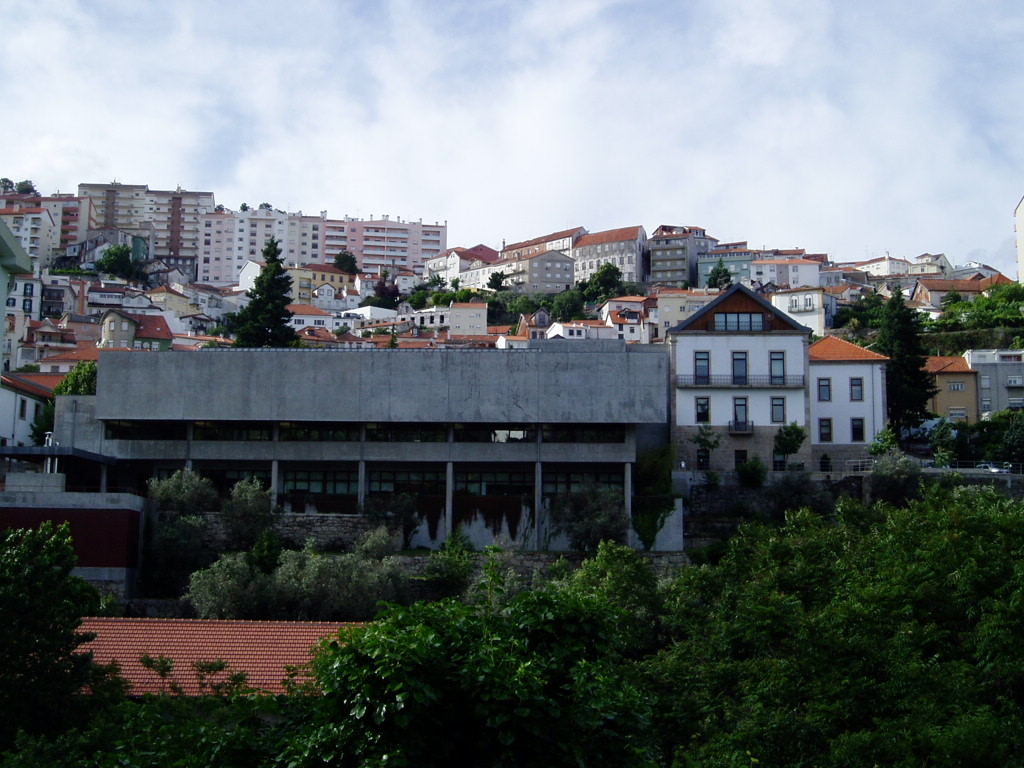 This is the University of Beira Interior main library, the concrete building plus the white building at the right of it.